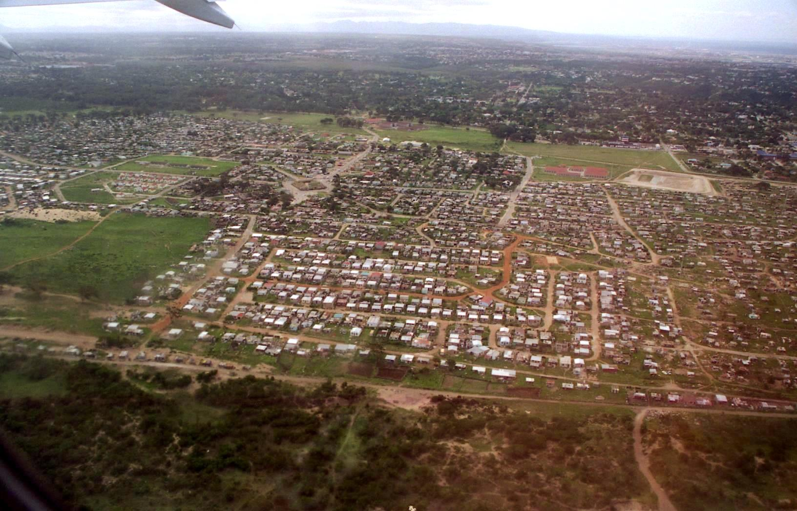 Near Port Elizabeth, South Africa.